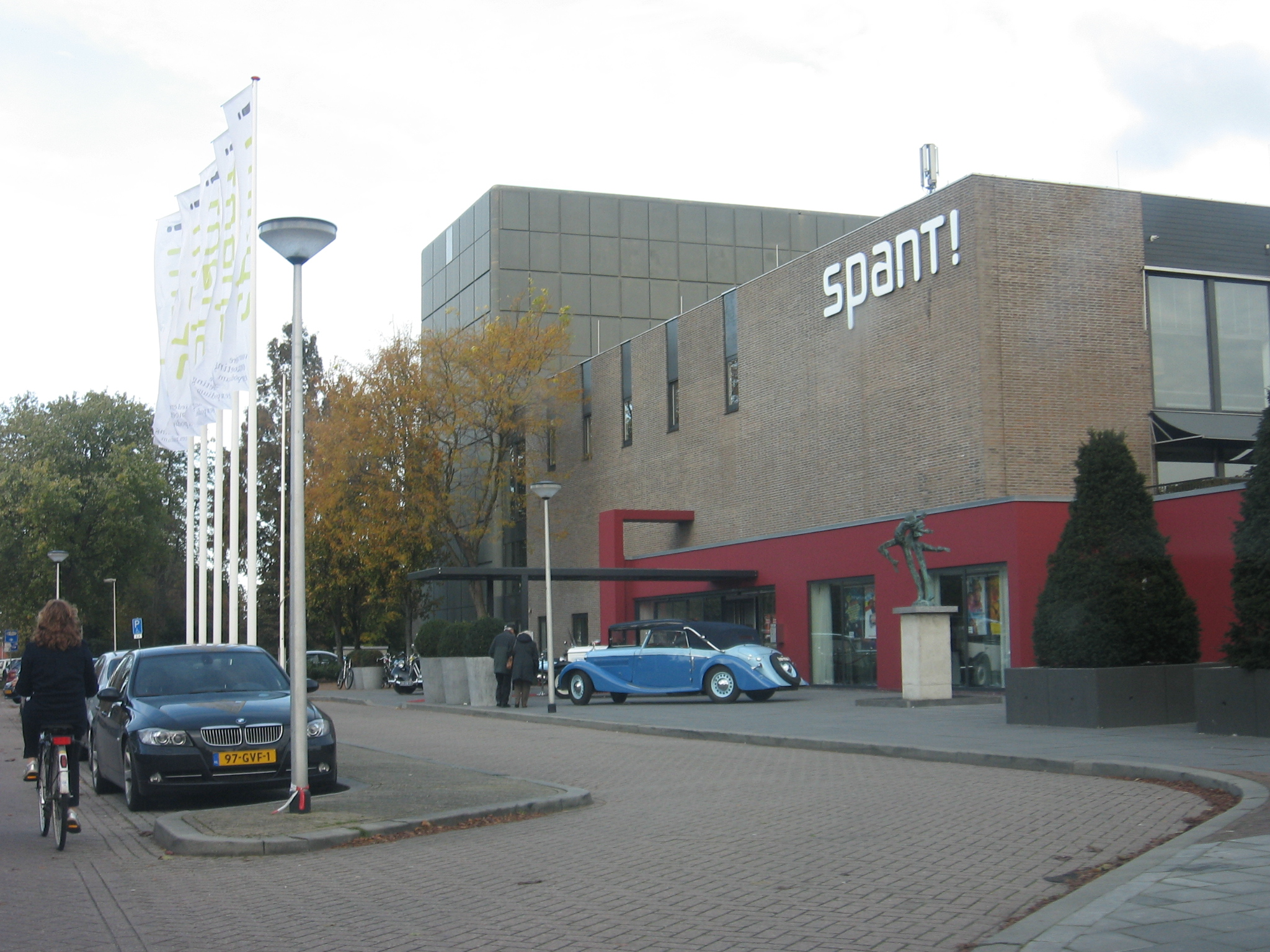 't Spant, Bussum